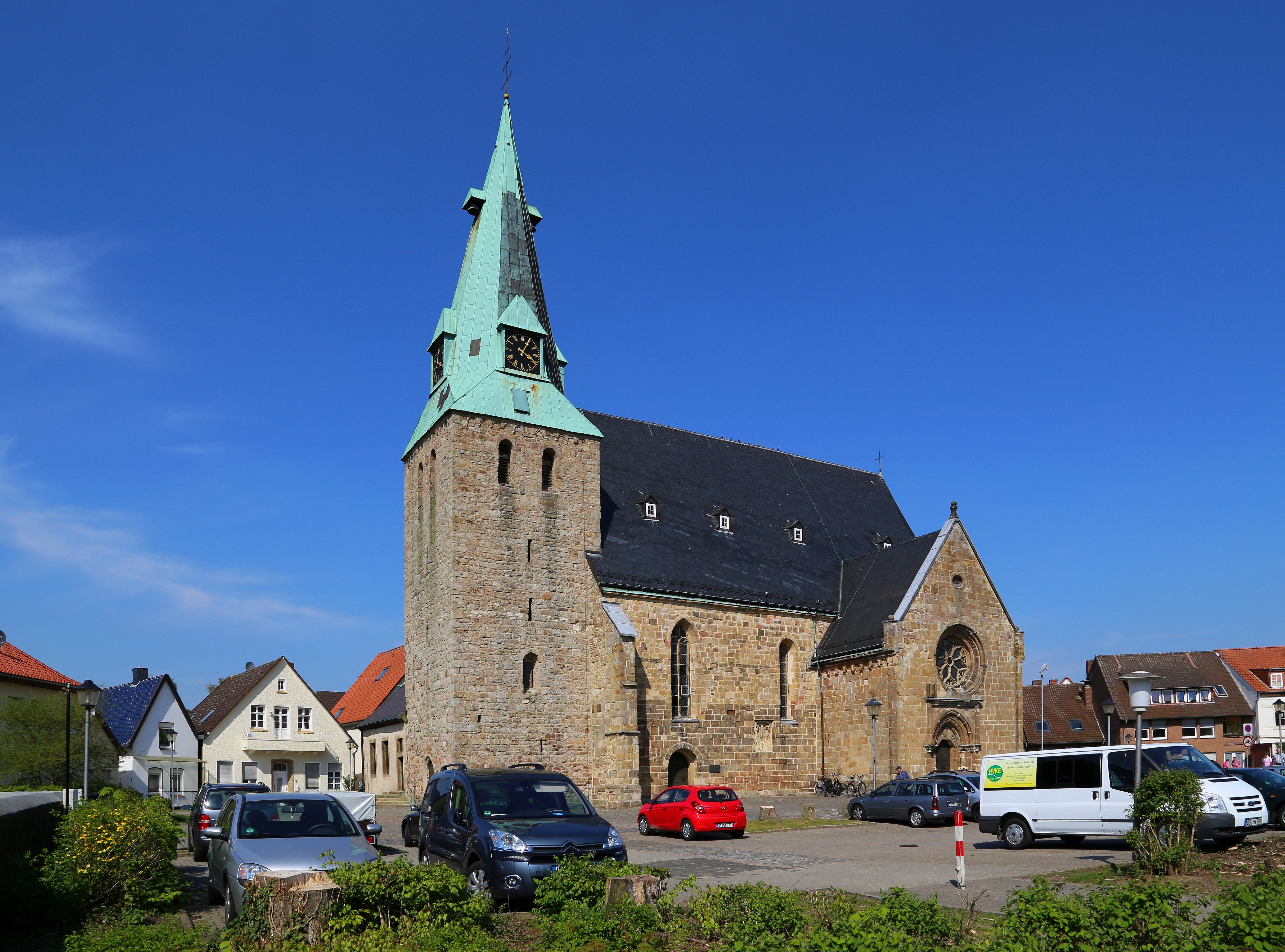 The Protestant City Church (Evangelische Stadtkirche) in Westerkappeln, Kreis Steinfurt, North Rhine-Westphalia, Germany. The church is a listed cultural heritage monument.